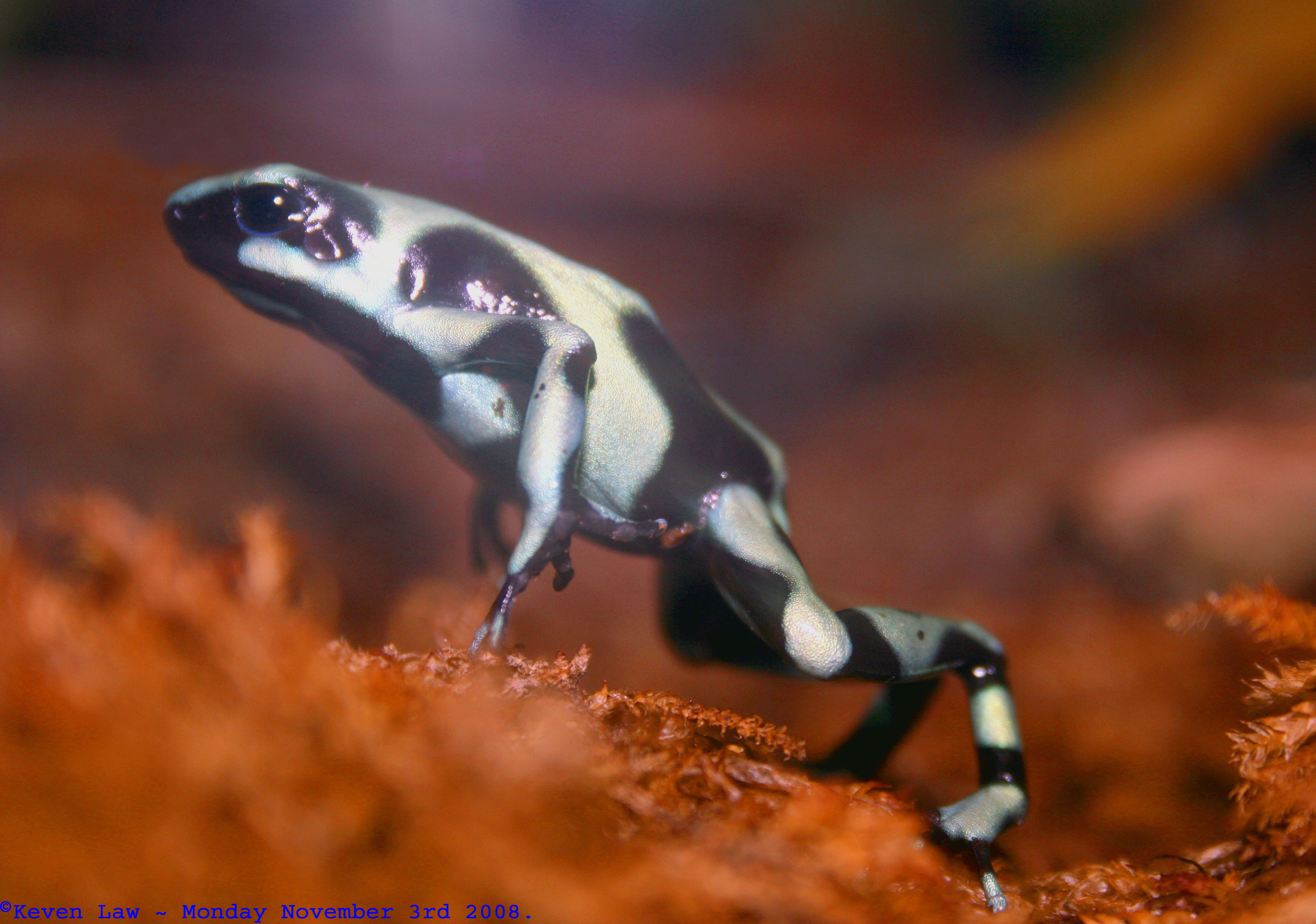 Green & Black Poison Frog, Deep Sea World, Edinburgh, Scotland, Monday 3rd November 2008. Dendrobates auratus, also known as the green and black poison dart frog.